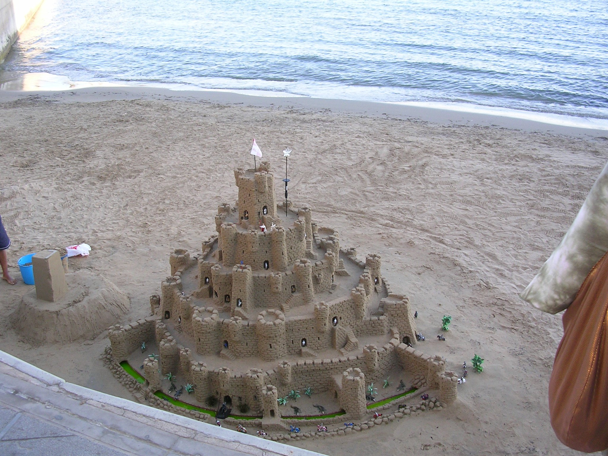 Beach art at La Mata